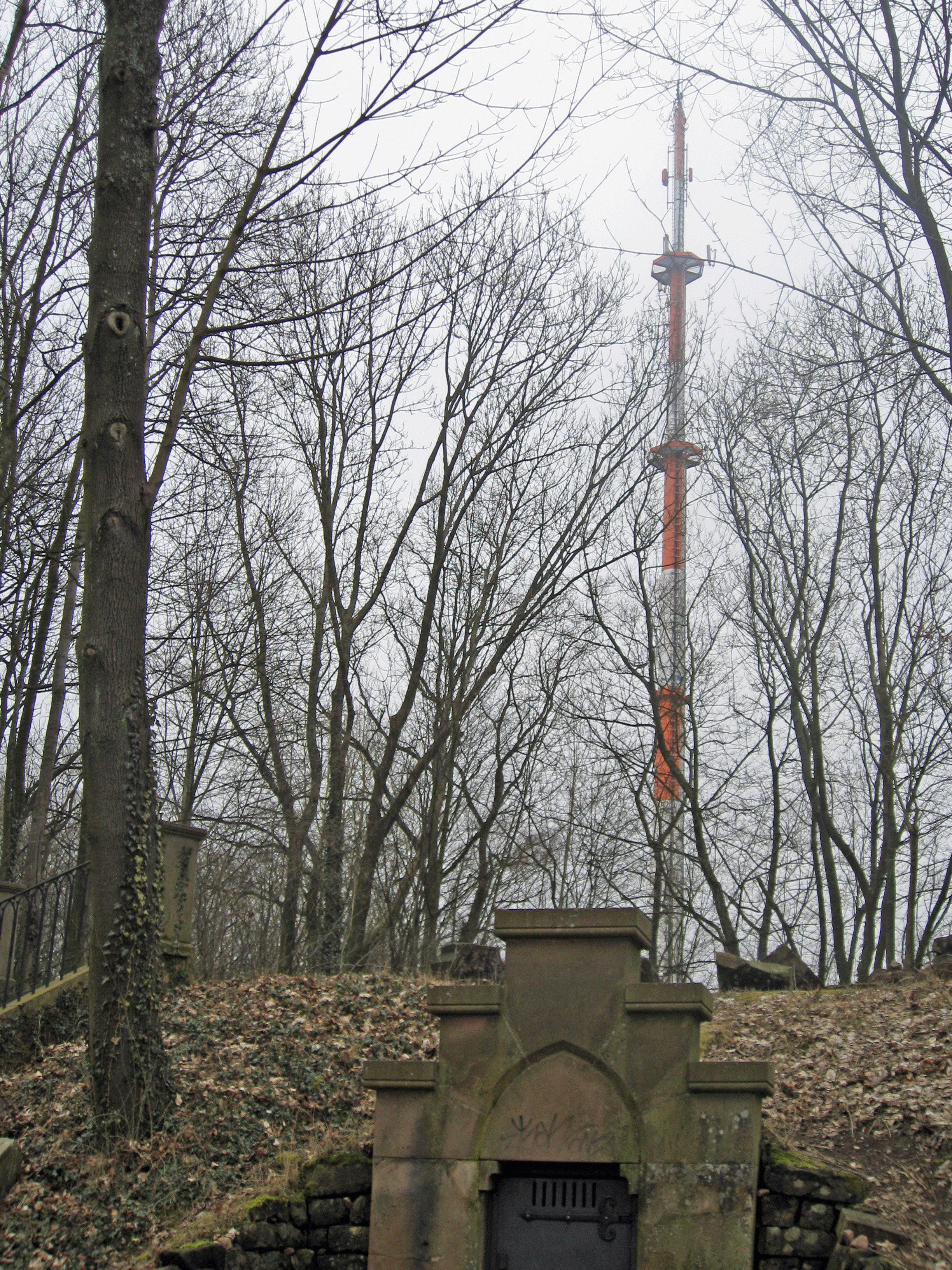 Radio mast in Saarbruecken with base of Winterberg memorial in front